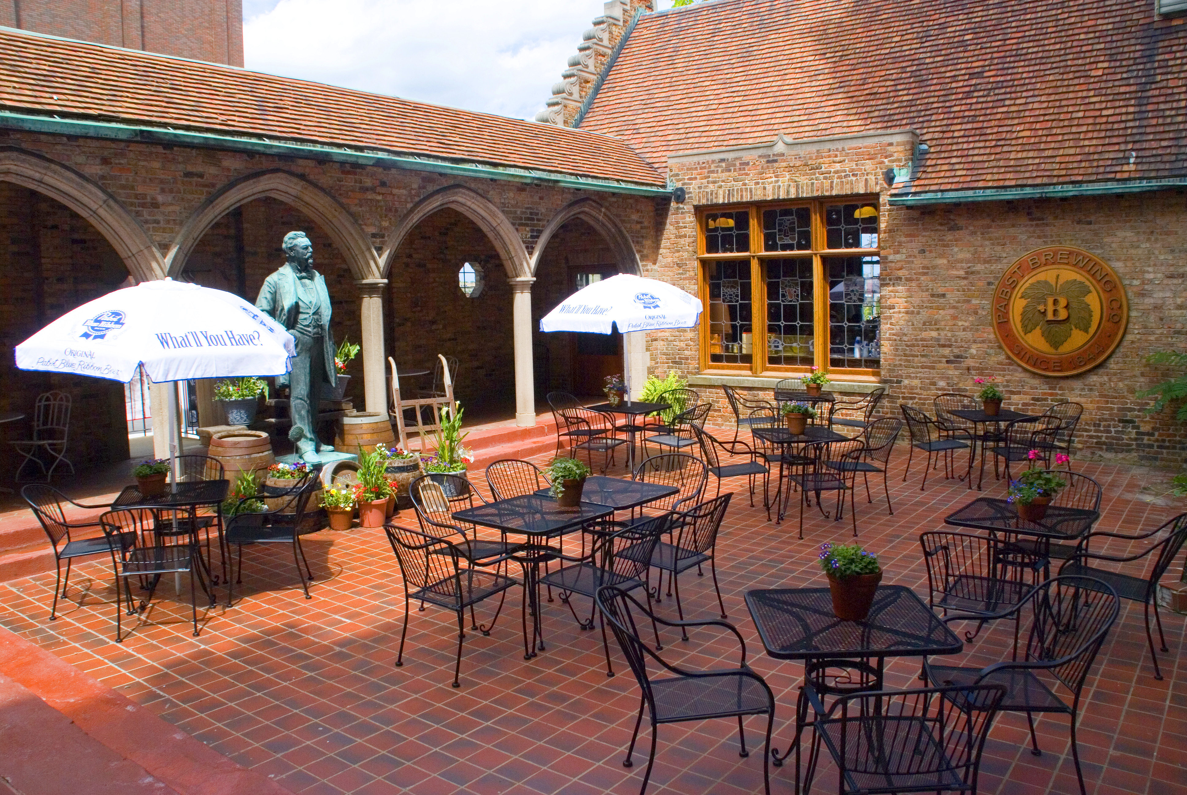 A view of the Captain's Courtyard (ca. 2019) featuring a statue of Captain Frederick Pabst at the former Pabst Brewing Co. The former Pabst Brewing Co. corporate offices & visitors center is now known as Best Place at the Historic Pabst Brewery.